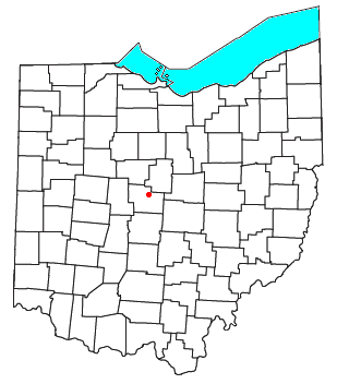 Locator map of the unincorporated community of Kilbourne in Delaware County, Ohio, United States.